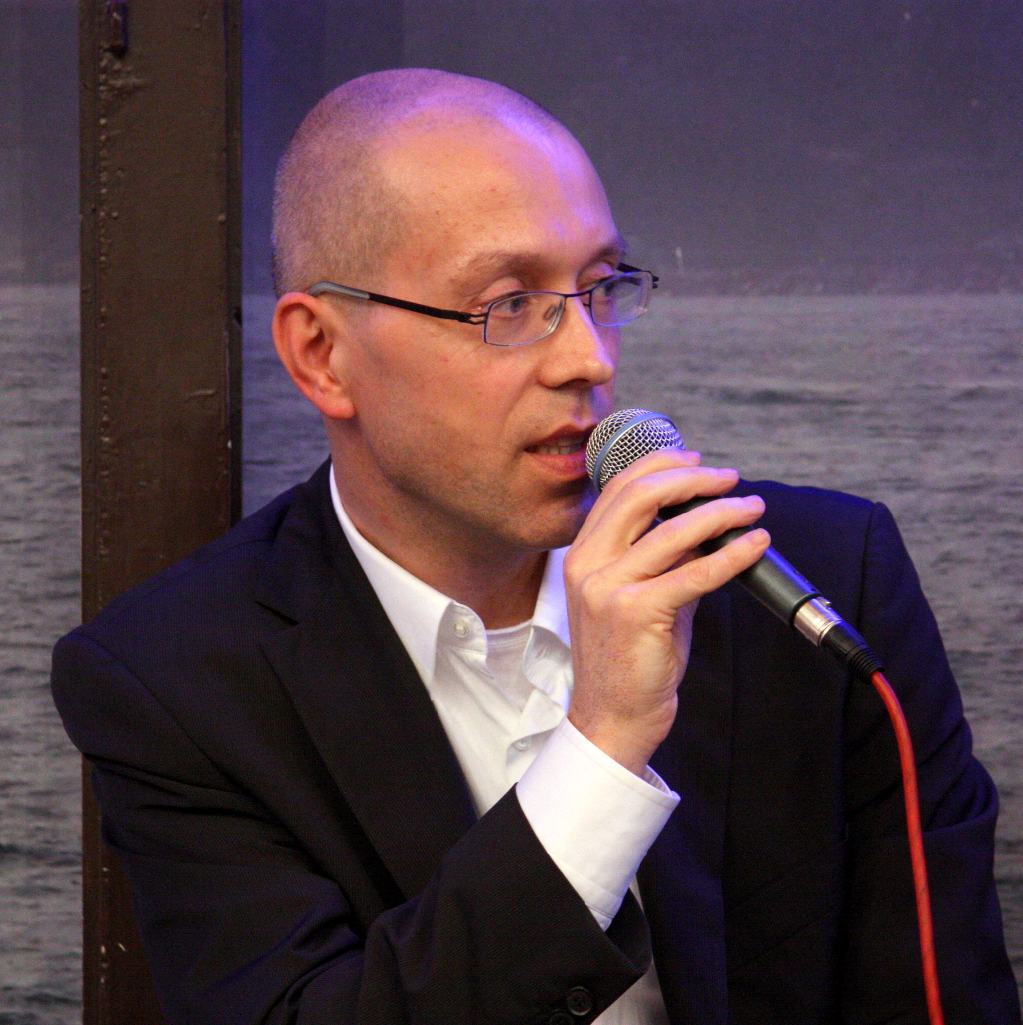 Jörg Asmussen (Social Democrats, SPD) from Germany. Member of the Directorate of the European Central Bank (ECB) as of 2012. Picture taken at a talk in Freiburg, Baden-Württemberg, Germany.